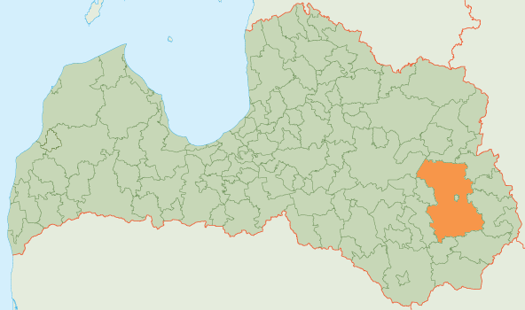 Map of Rēzekne municipality, Latvia